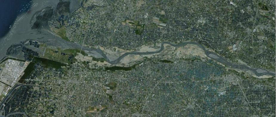 Zhuoshui River_(Satillite view)中文（台灣）: 濁水溪_(衛星圖)